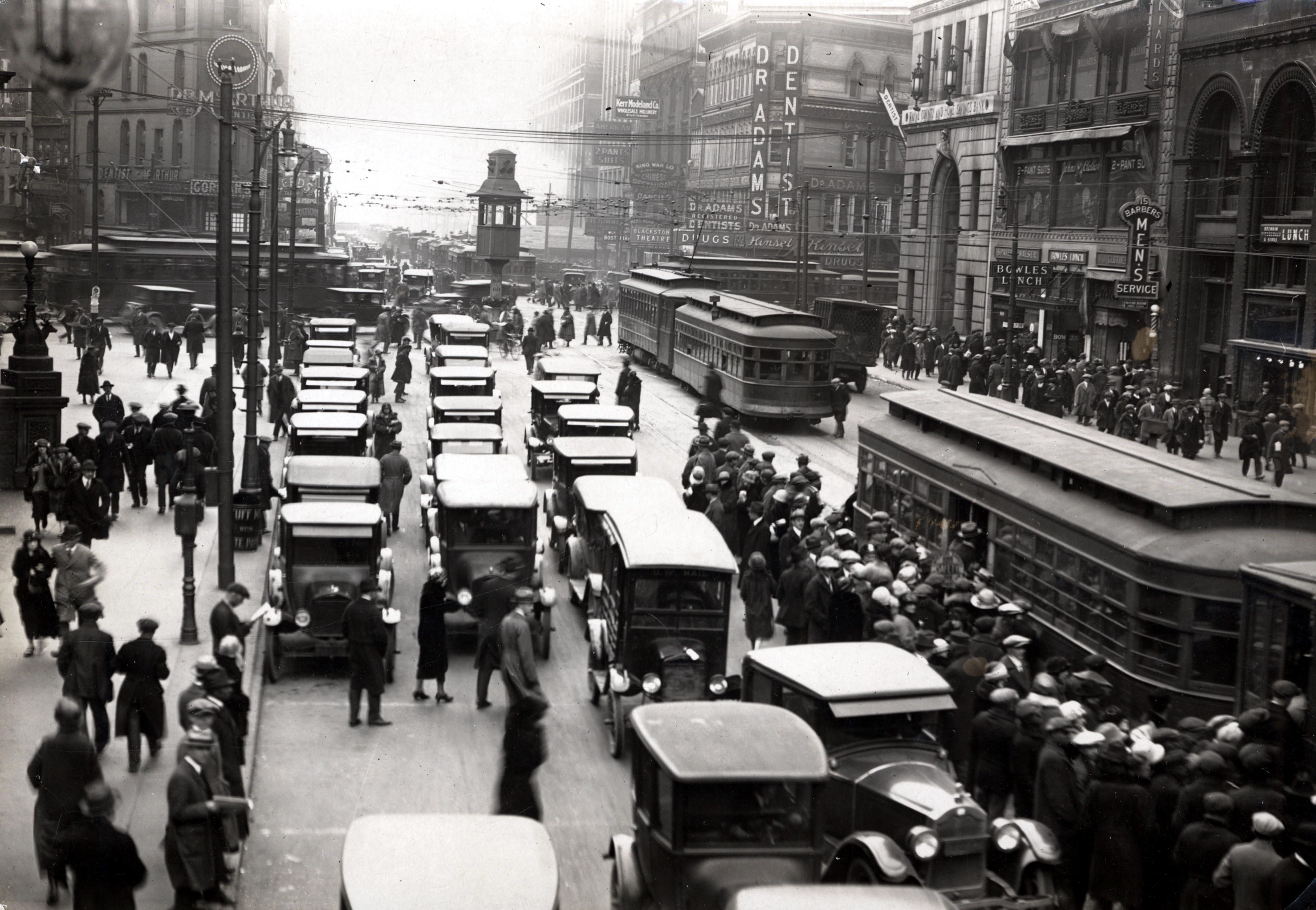 Corner of Michigan and Griswold. Great deal of car traffic, large group of people boarding trolley car. Large commercial buildings in background. Traffic tower in middle of street, with person standing inside.